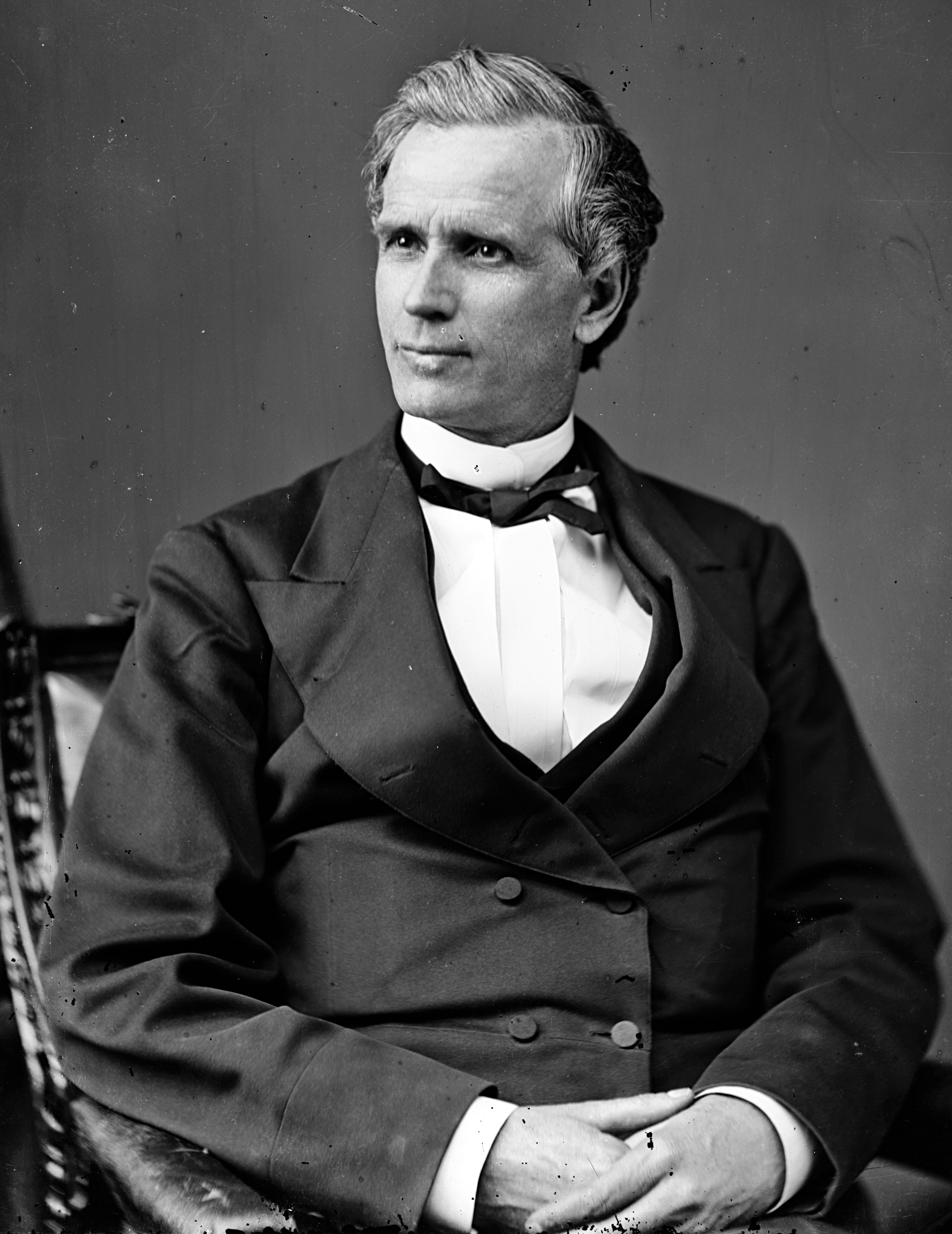 Walter L. Sessions, US Representative from New York